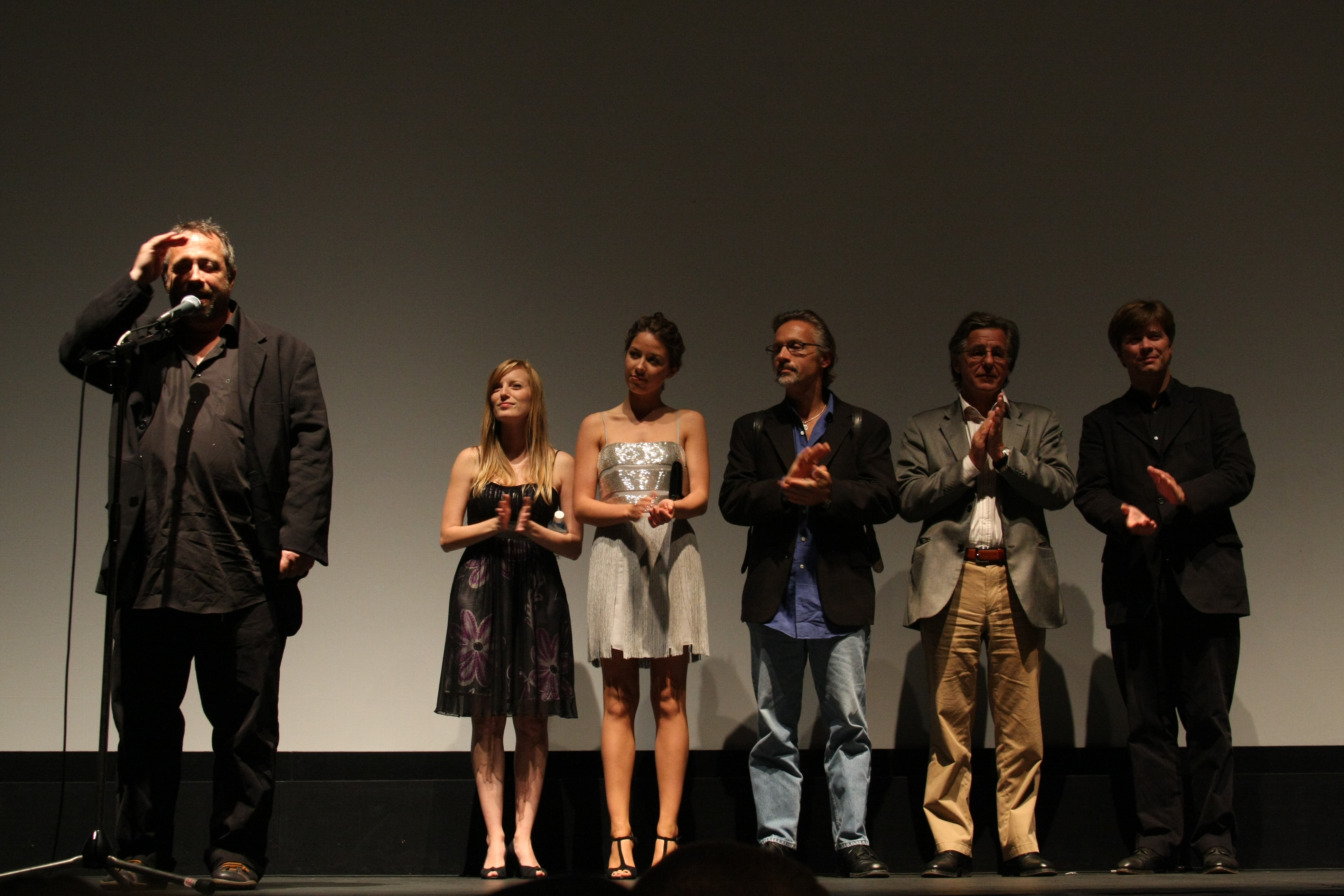 Jaco and the Mr Nobody crew